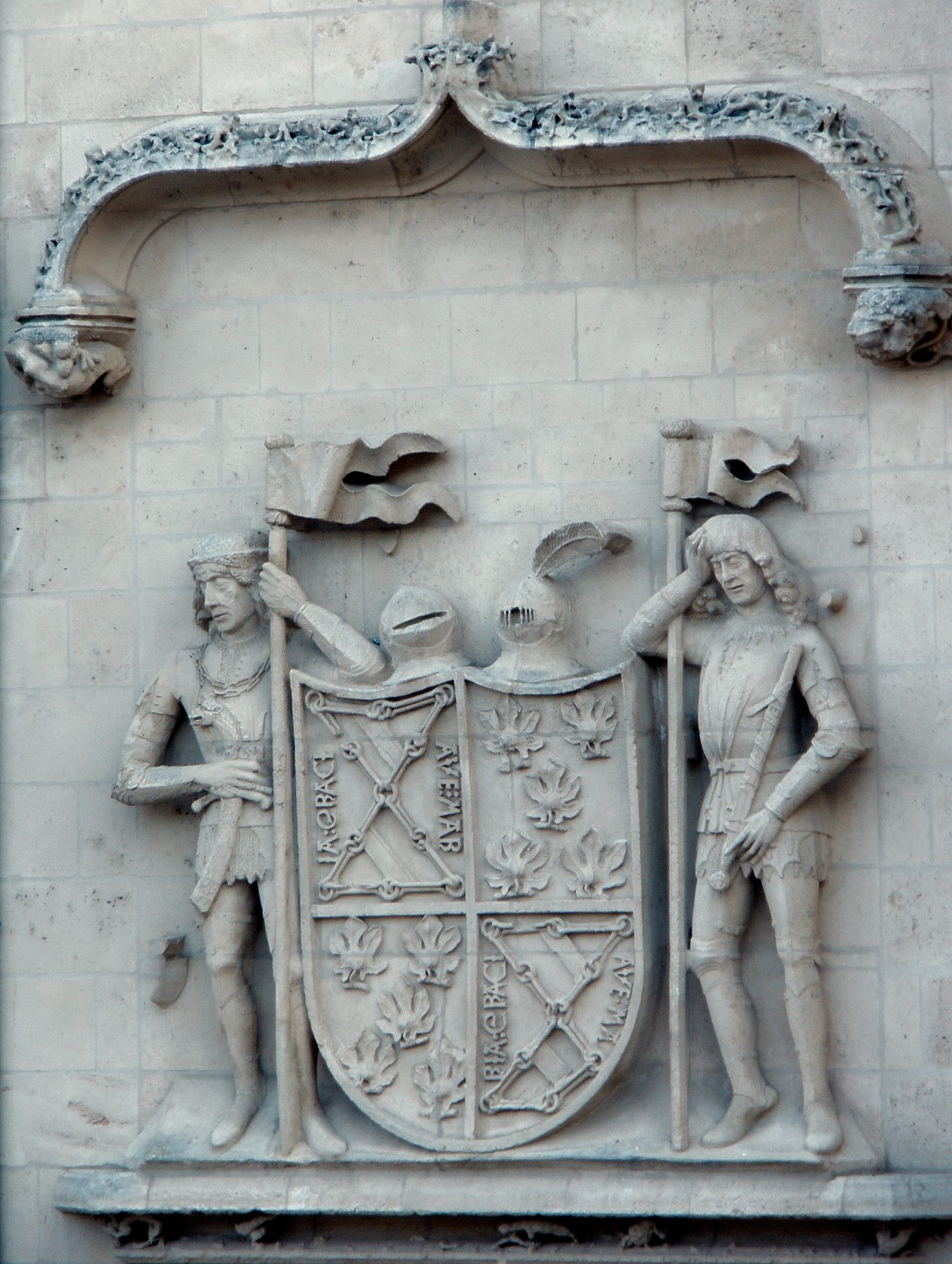 Blasones en el exterior de la Capilla del Condestable de la Catedral de Burgos (Spain)